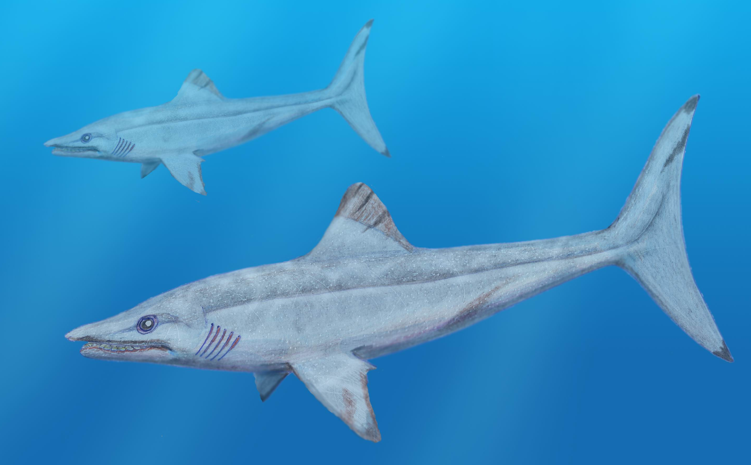 Cropped image of taxon in file name